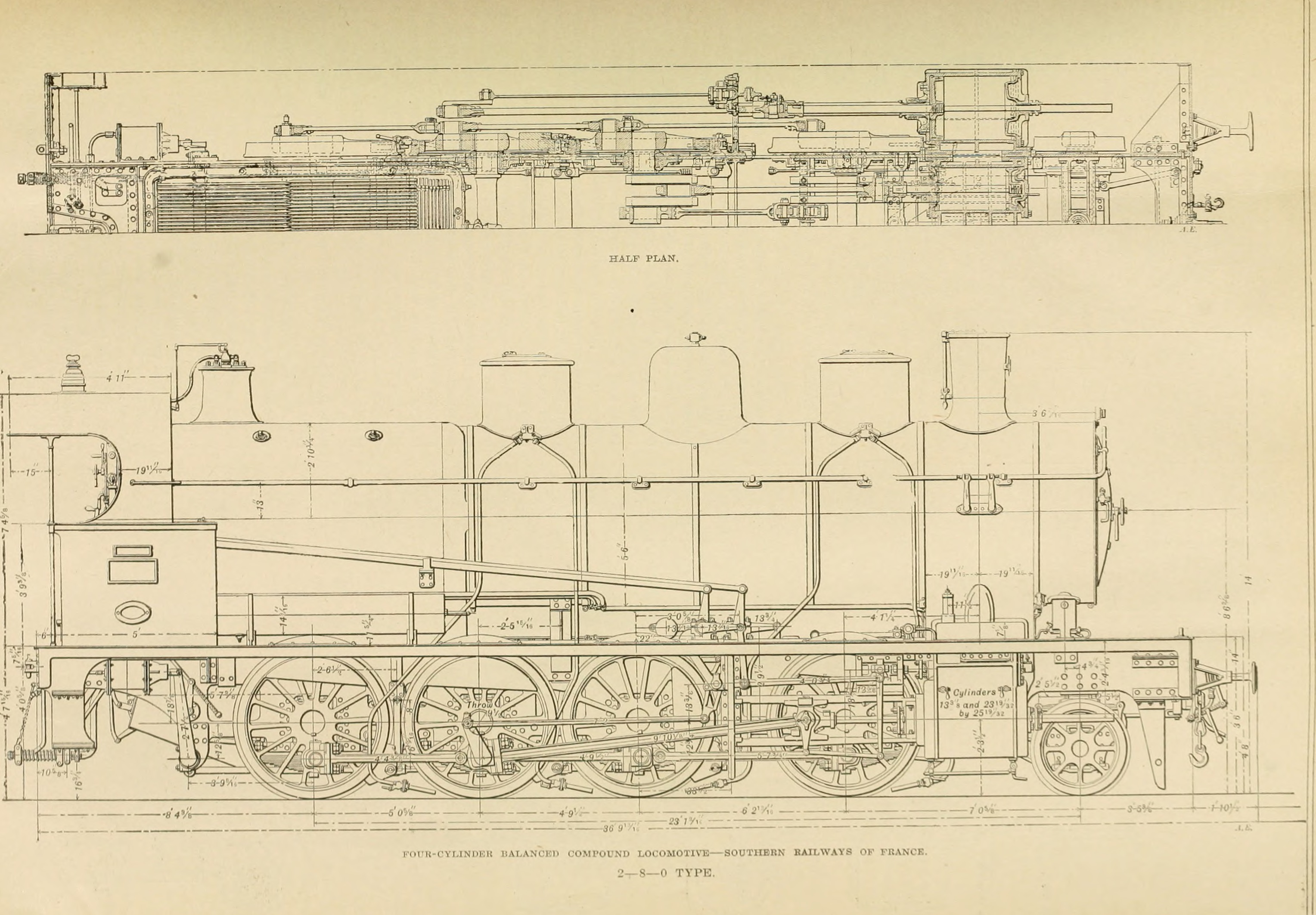 Title: American engineer and railroad journal Year: 1893 (1890s) Authors: Subjects: Railroad engineering Engineering Railroads Railroad cars Publisher: New York : M.N. Forney Text Appearing Before Image: nder volume. For the low pressure cylinders, whichwith reference to compressions are very much analogous to thecylinders of simple expansion locomotives,—a cylinder clear-ance of 7 per cent, to 8 per cent, of the cylinder volume can beused, like that in the simple engine, and with valves set forinside lap line in line or very small negative laps. In anyevent whenever an engine is designed to work with a verylew pressure in the receiver, it may even be desirable to in-crease the above two elements. Which among the diverse methods employed—all evidentlybeing of a nature to insure a free steaming locomotive—are those which at the same time give the most economic per-formance of the steam consumed? This question is rather difficult to answer a priori, andcomparative experiences are only misleading. But what ap-pears to us beyoud doubt is that the common steam distribu-tions for both high and low pressure cylinders are those that, Januauv, iwi. AMERICAN ENGINEER AND RAILROAD JOURNAL. Text Appearing After Image: 6 AMERICAN ENGINEER AND RAILROAD JOURNAL.